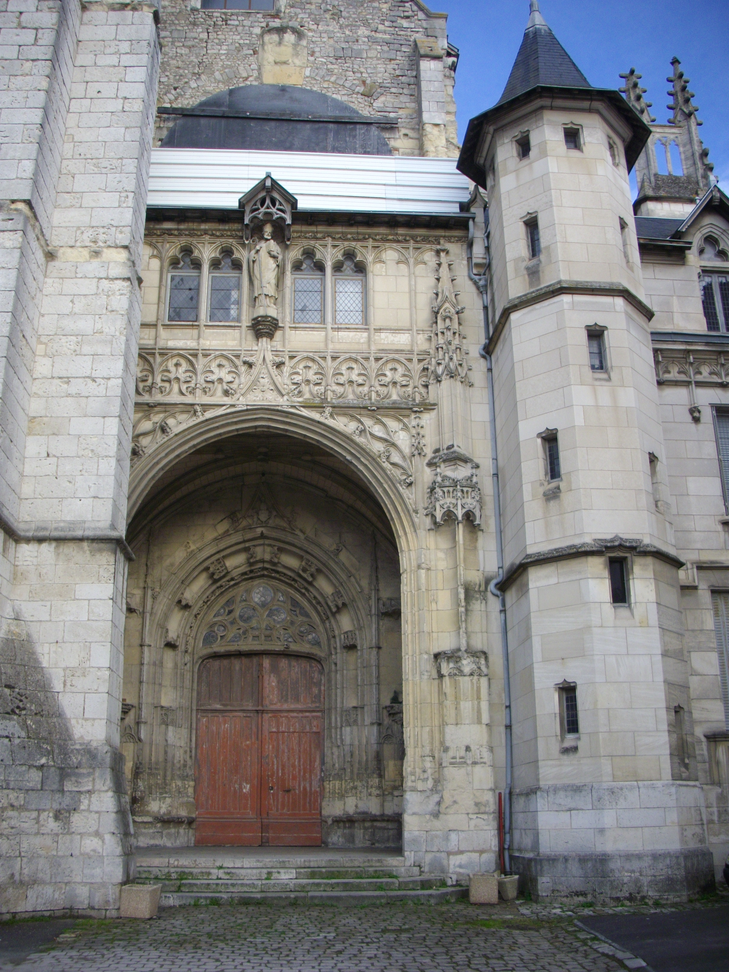 Saint-Euverte church of Orléans (Loiret, France) .